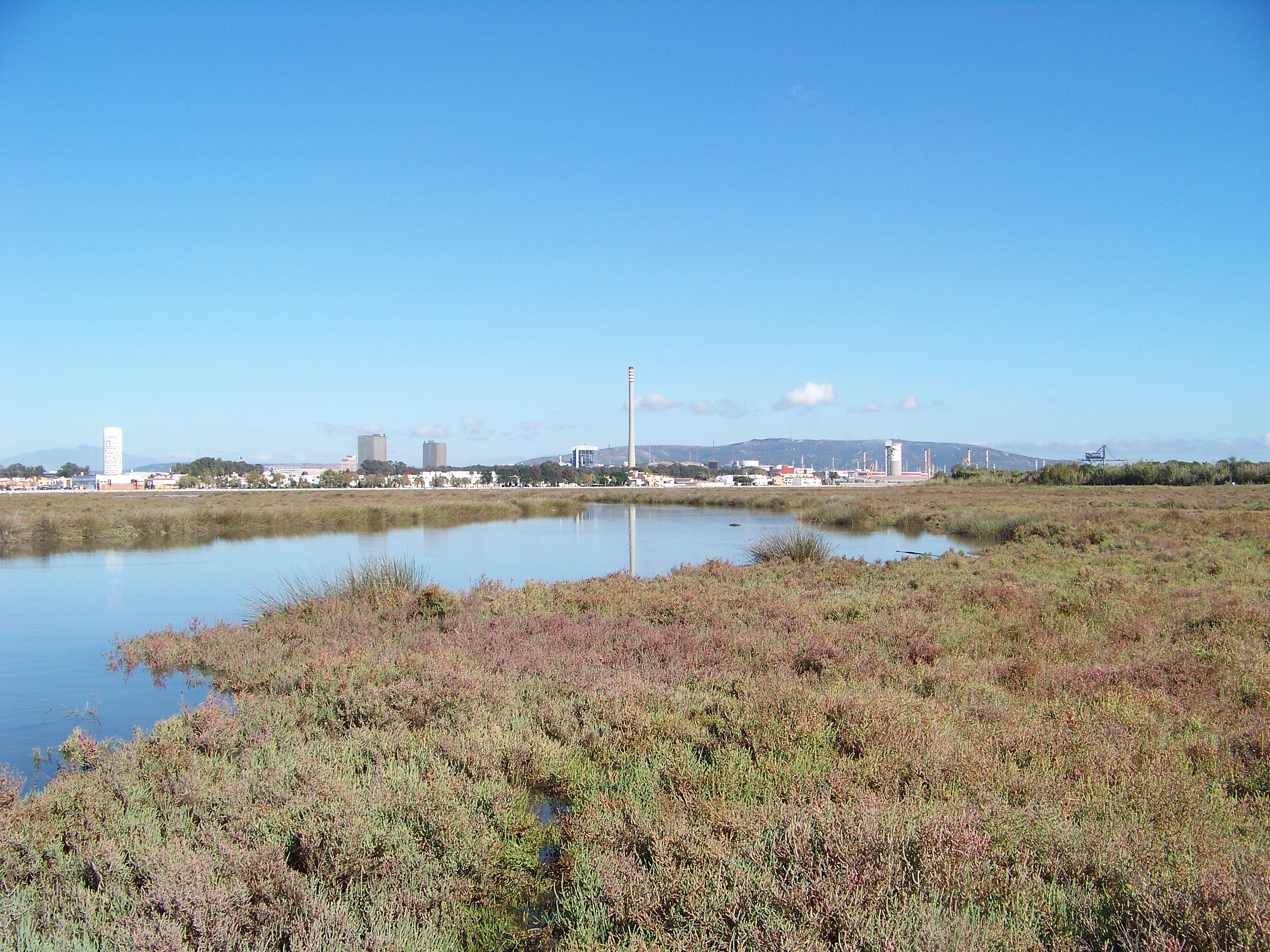 Low saltmarsh and tidal creek in Palmones river. In the background appears and industrial area and The rock of Gibraltar This is a photography of a Special Area of Conservation in Spain with the ID: ES6120006. Natura2000 entry, EEA entry